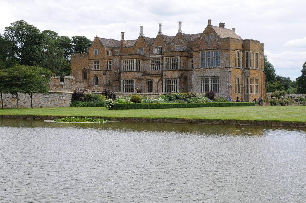 Broughton Castle is the ancestral home of Lord & Lady Saye and Sele and has remained in the same family since 1377. In his book 'England's Thousand Best Houses', the author, Sir Simon Jenkins awards the house five stars one of twenty of the thousand houses to receive this.